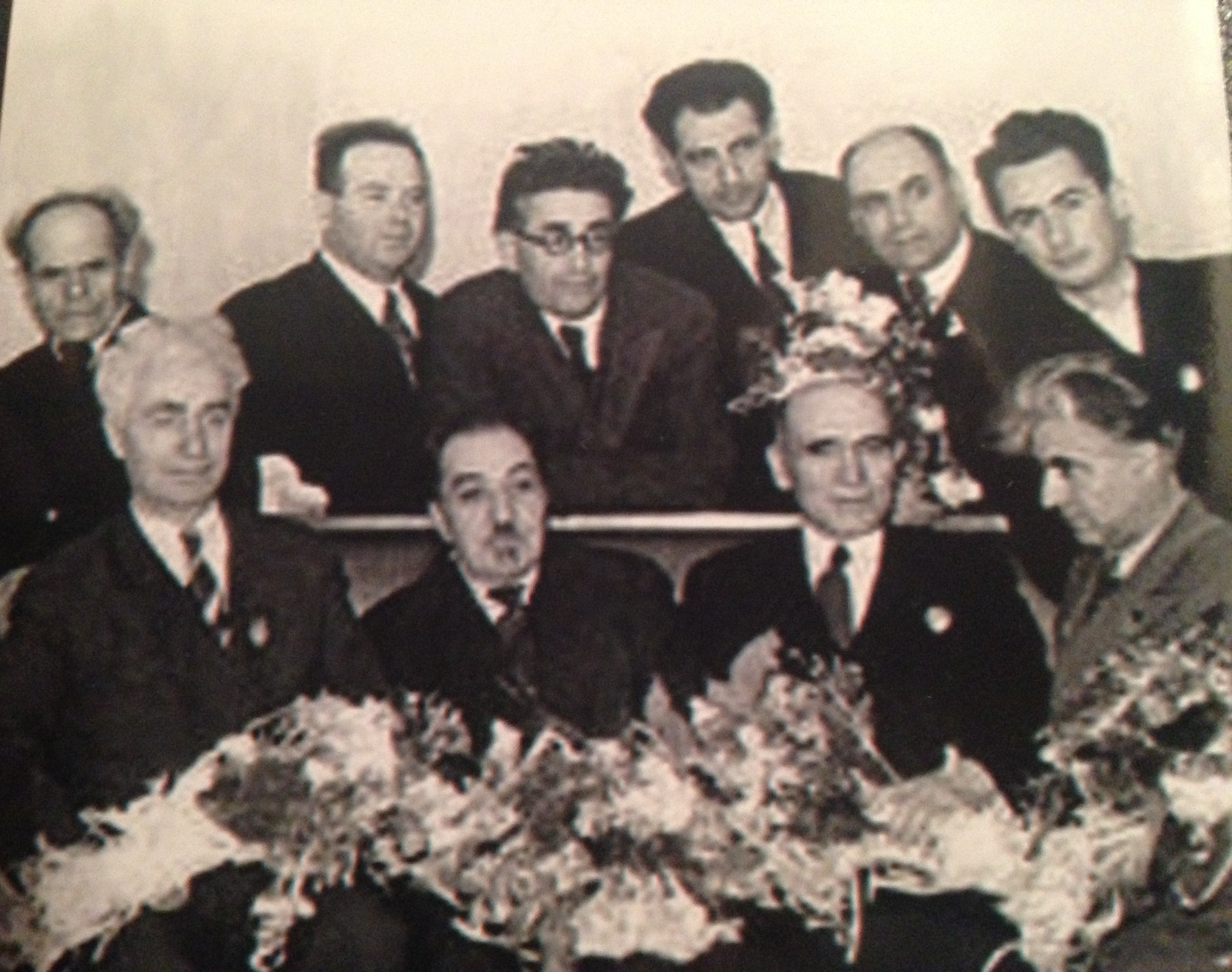 This is a photo of the Writers Union of Armenia.